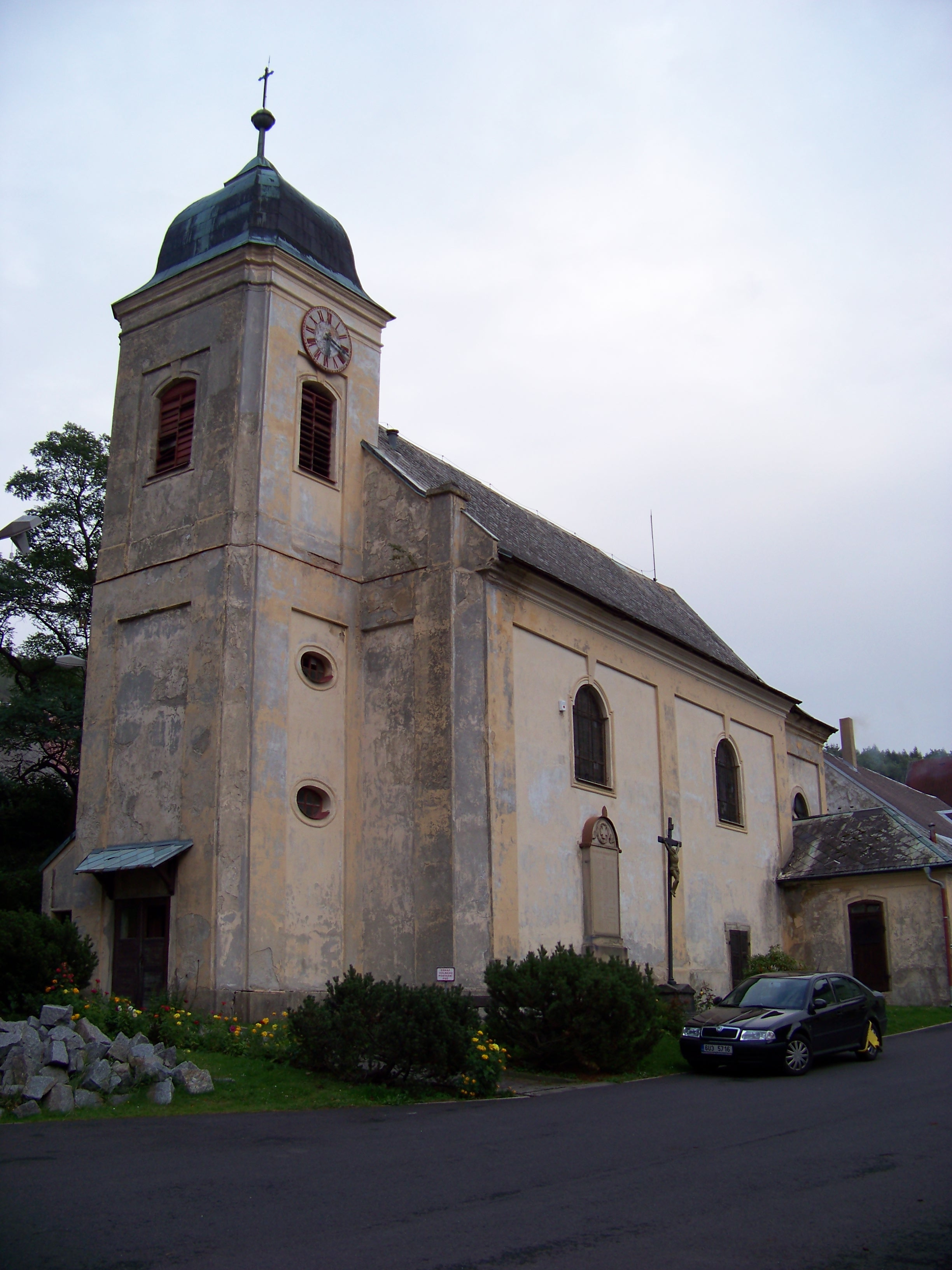 Mikulov, Teplice District, Ústí nad Labem Region, the Czech Republic. Tržní náměstí, Saint Nicholas Church.